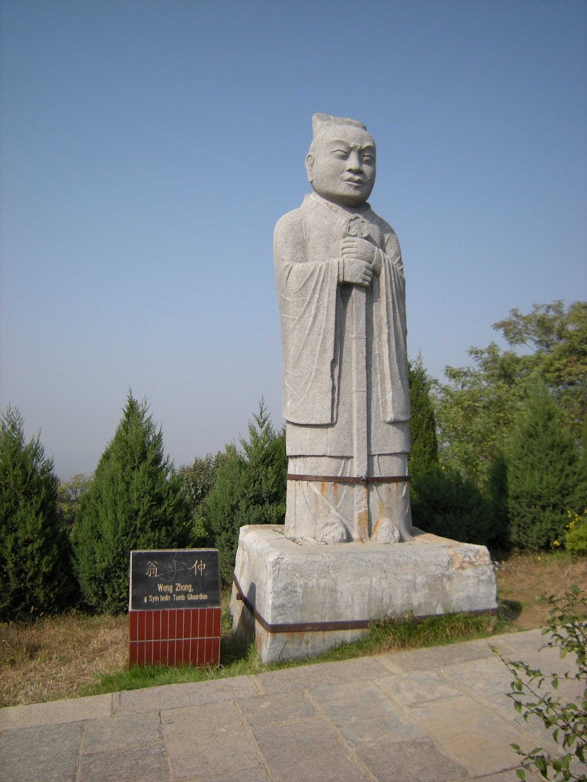 A stone-carved sculpture of a tomb guardian warrior, from the Qianling Mausoleum of the Chinese Tang Dynasty.